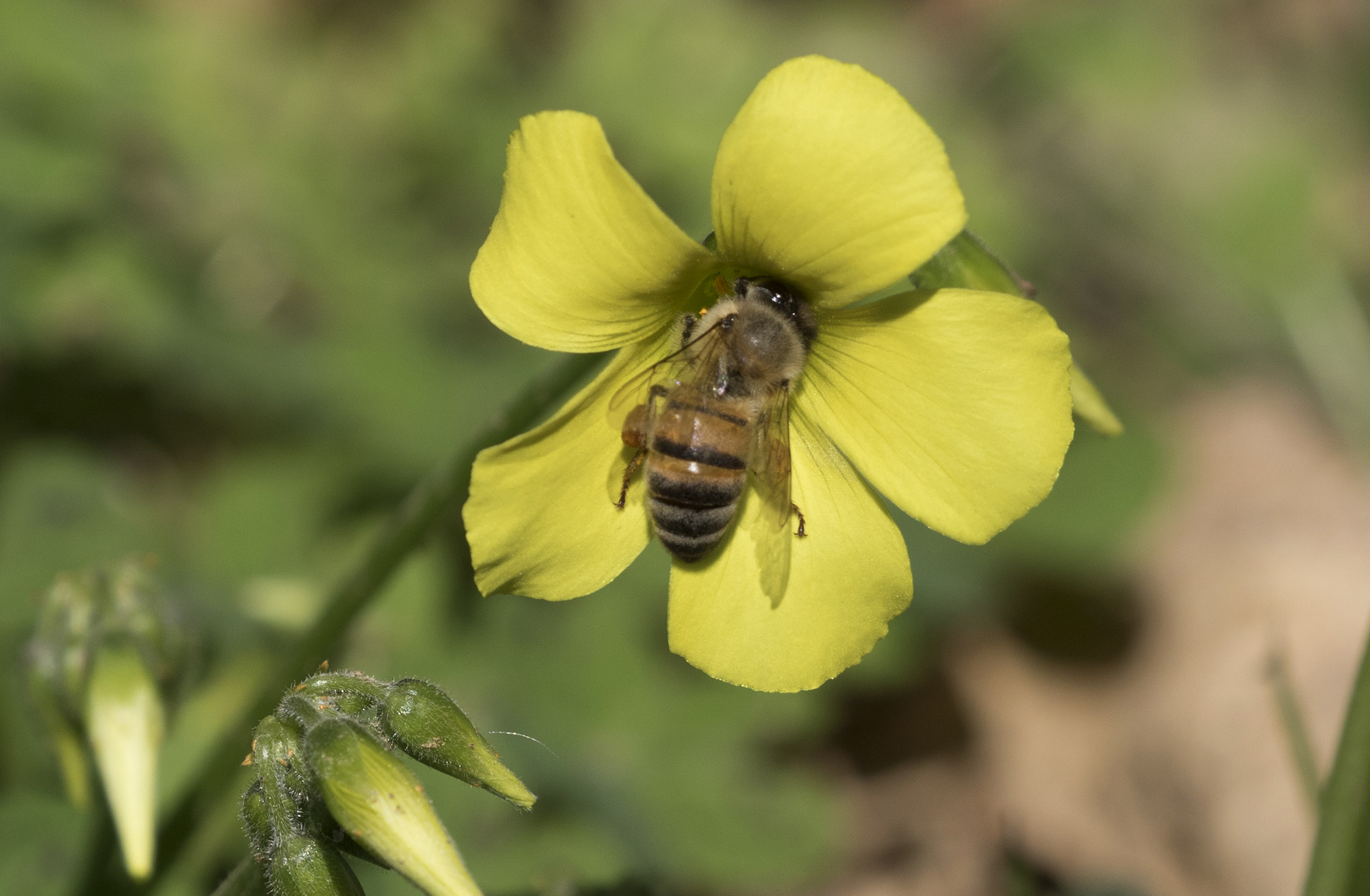 A nectaring honeybee (Apis mellifera ssp.). Seyhan - Adana, Turkey.